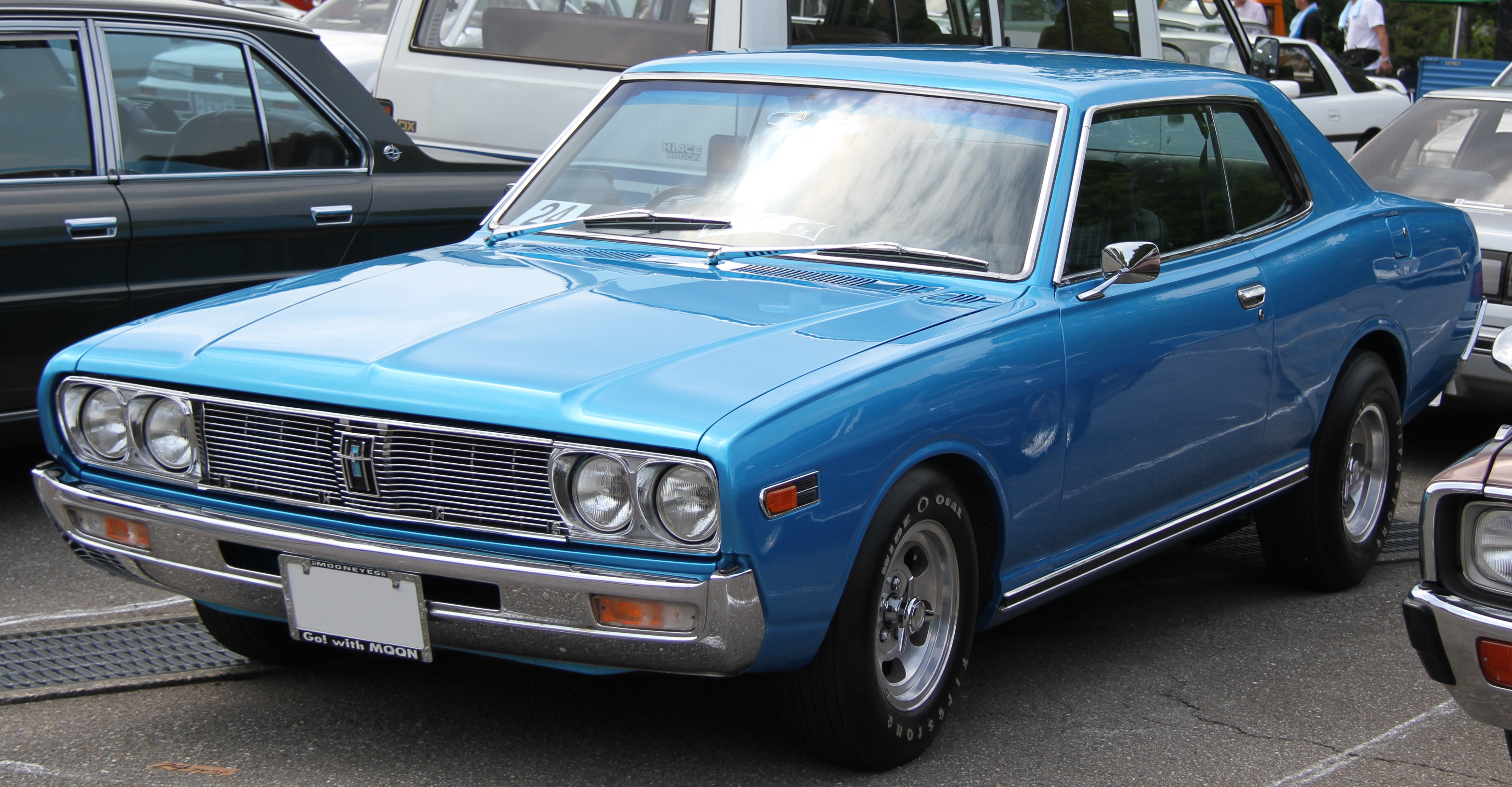 Nissan Gloria (the badge on the grille is in the shape of the Japanese Crane "orizuru", which is used on the Gloria)